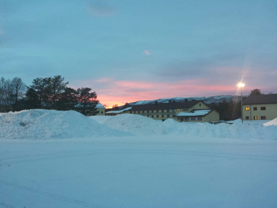 Evening from Setermoen garrison, Norwegian Army, january 2014. Using a Canon S110, later edited in inkscape by me